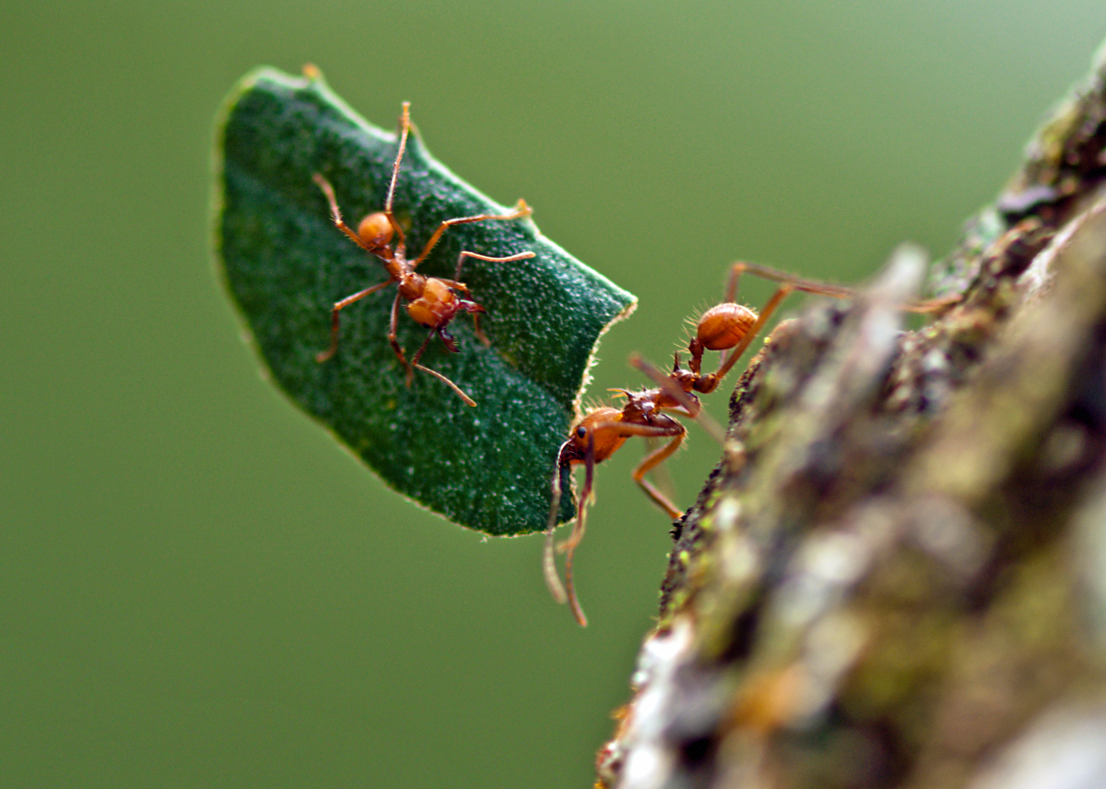 Two leafcutter ants of the genus Atta, one hitchking (an example of social immunity)